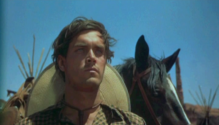 The Searchers is a 1956 epic Western film directed by John Ford which tells the story of a man who spends years looking for his niece who was taken by Indians.